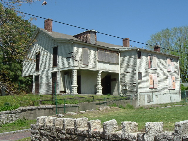 LOUKY's oldest building LOUKY